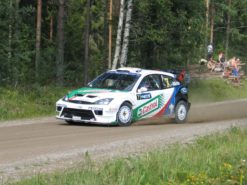 Markko Märtin driving his Ford Focus RS WRC 04 at the 2004 Rally Finland.